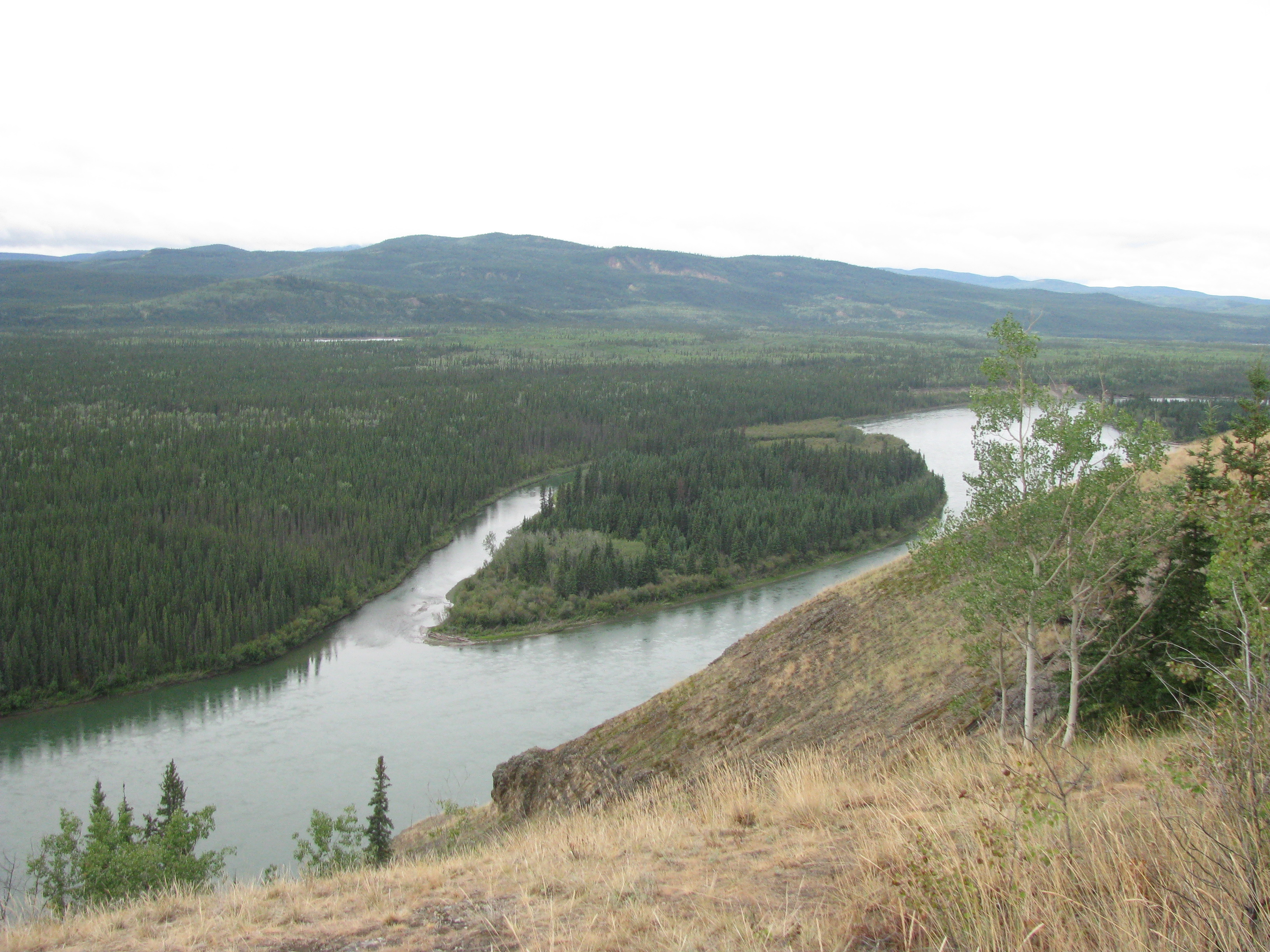 The following is the author's description of the photograph quoted directly from the photograph's Flickr page."Yukon River near Carmacks, Campbell Highway, Yukon, Canada. Photographed 10 August 2009.Photographs taken at site of Columbia Disaster.Joint ©© Arthur D. Chapman and Audrey Bendus. "